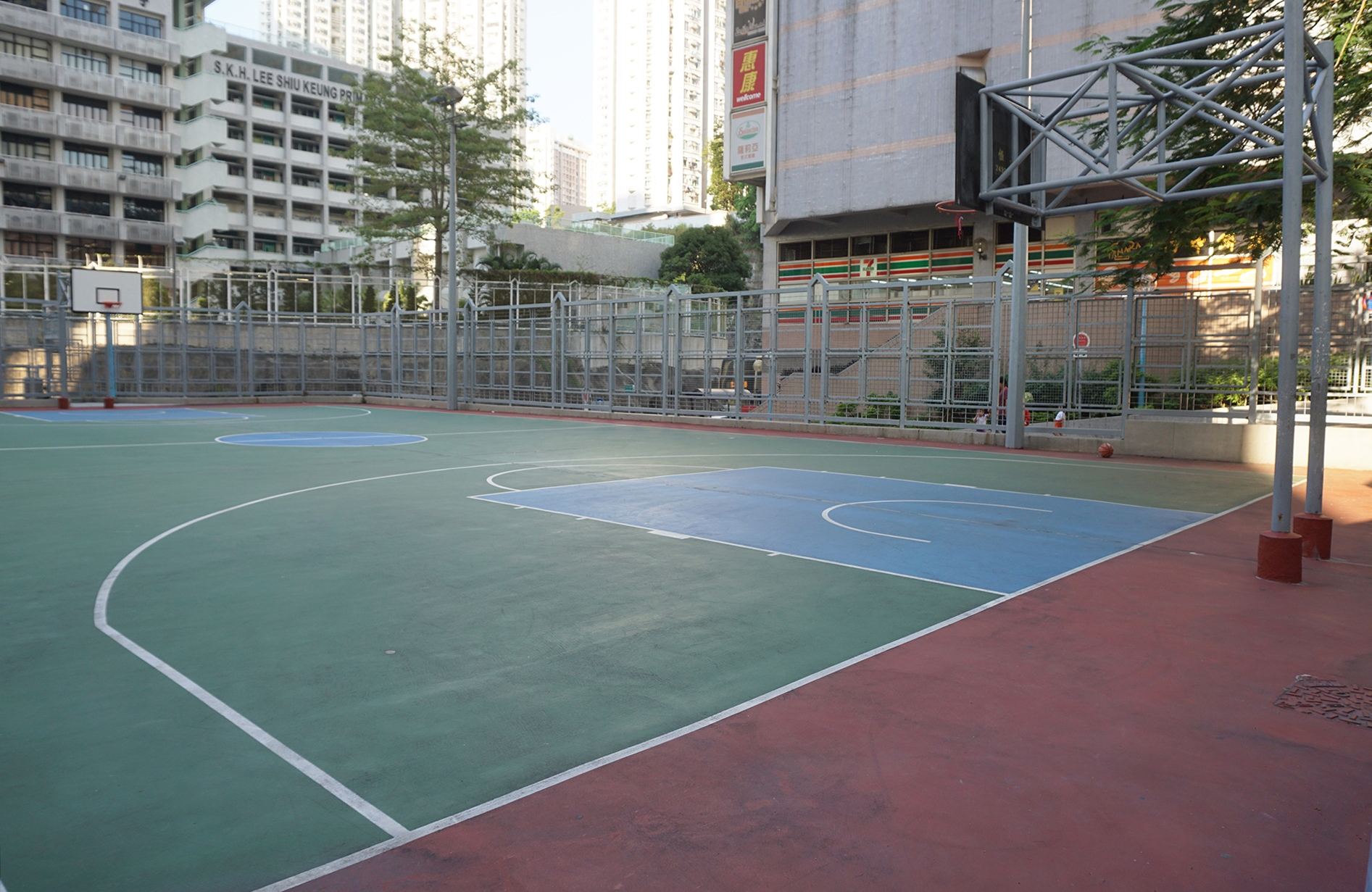 Ping Tin Estate in Lam Tin, Hong Kong.